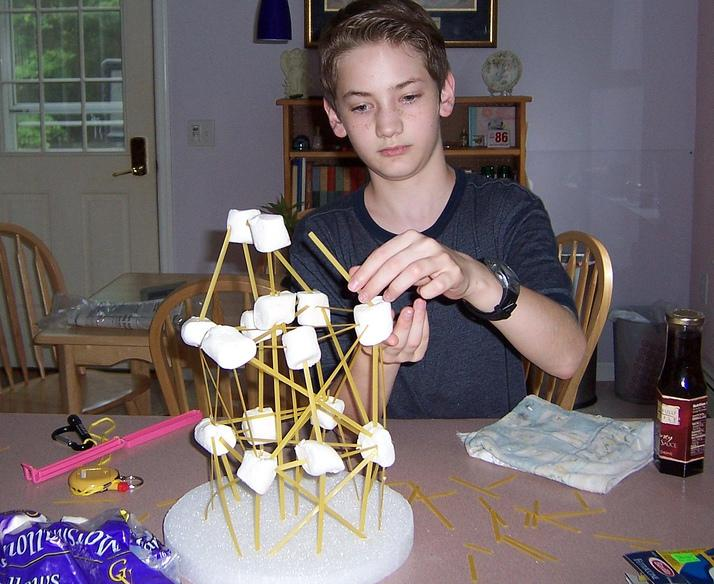 Homeschooler challenging The Leaning Tower of Pasta project, to build a tower using only pasta and marshmallows and measure its height and strength.